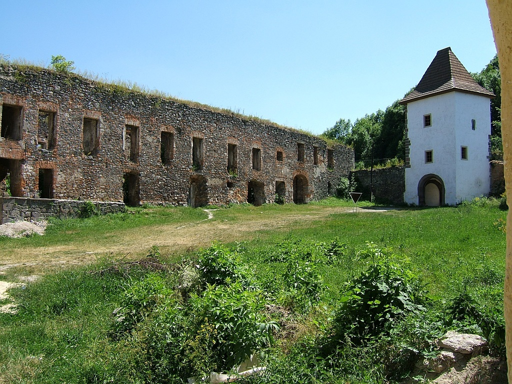 Viglas - first court